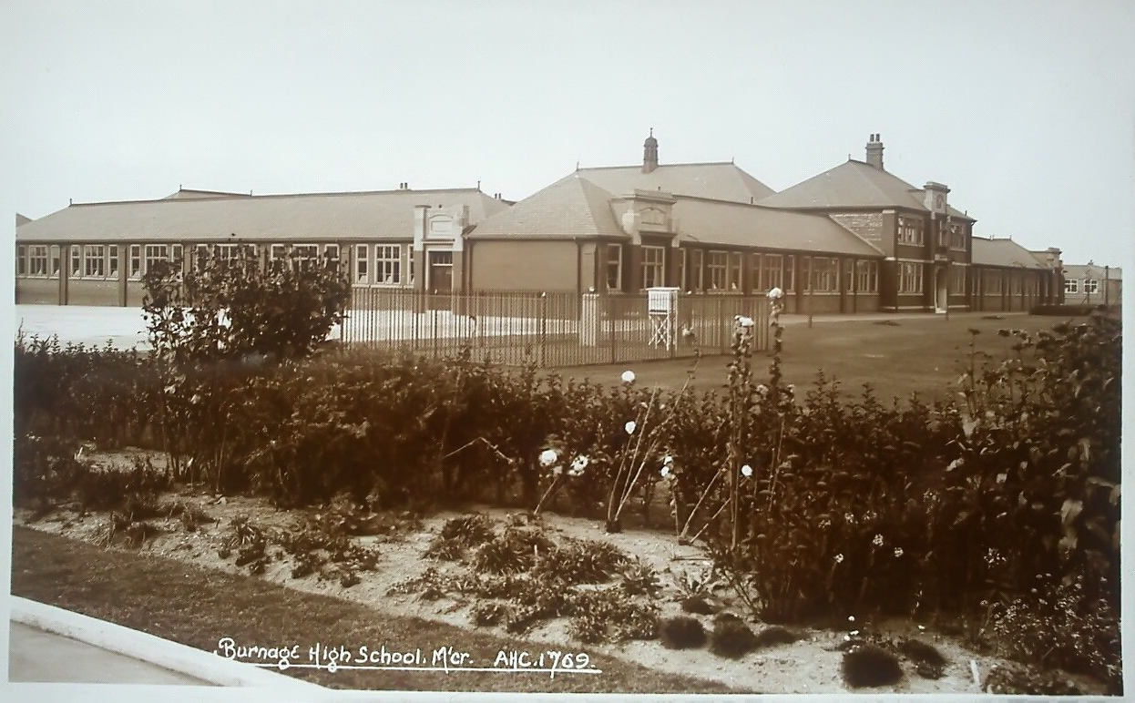 High School, Burnage C1950s.JPG